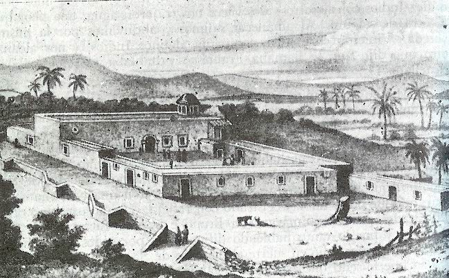 Drawing of Misión de Nuestra Señora de Loreto Conchó (18th-century work), Baja California Península, New Spain. In present day Baja California Sur (state), Northwestern Mexico.